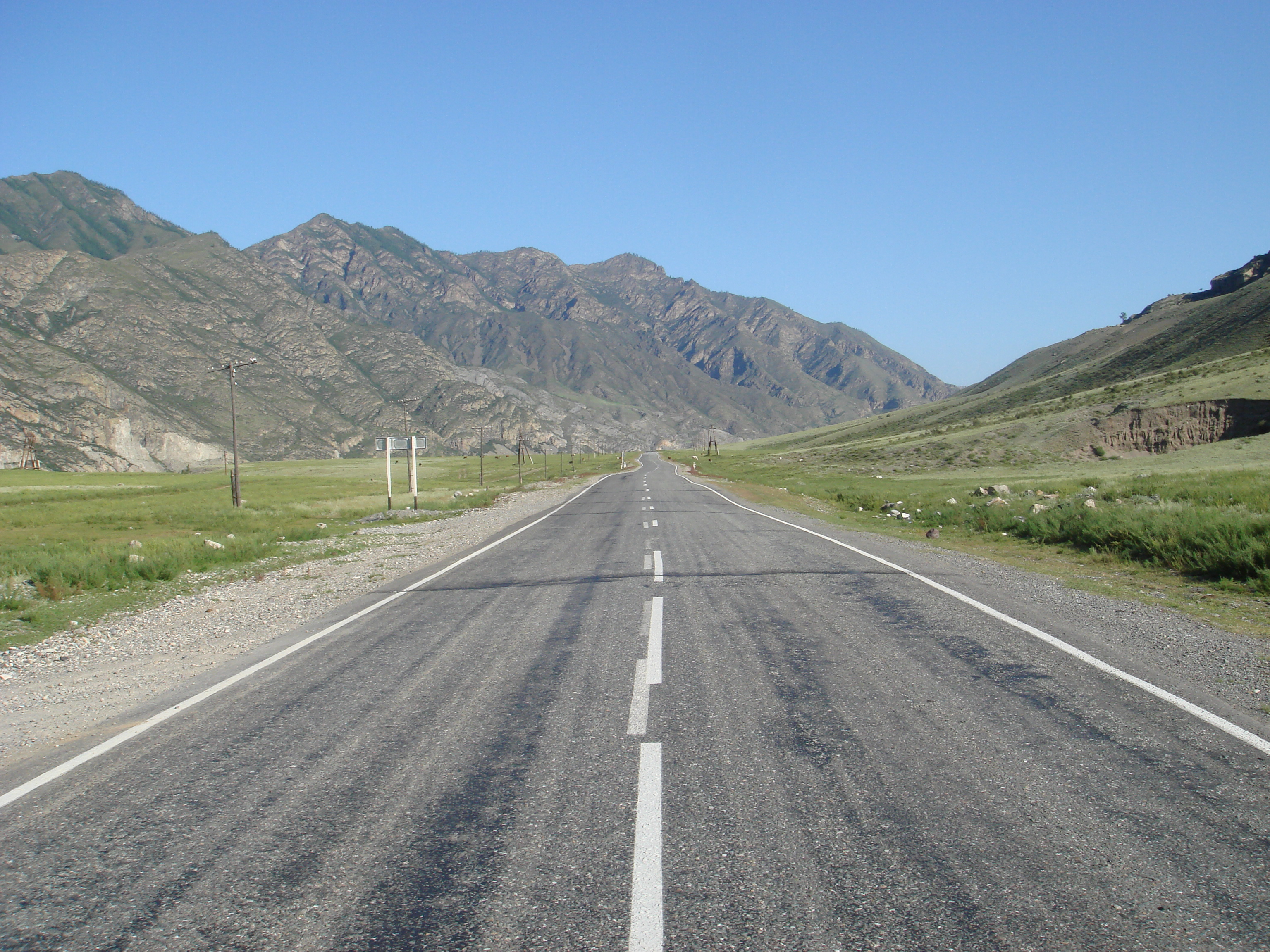 Chuysky trakt before Inya (Altay Republic, Russia).